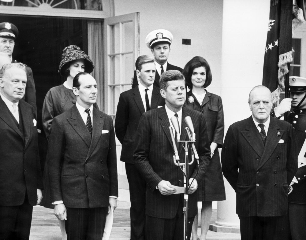 President John F. Kennedy delivers remarks at a proclamation ceremony declaring former British Prime Minister, Sir Winston Churchill, an honorary citizen of the United States. Front row (L-R): Under Secretary of State, George Ball; Ambassador of Great Britain, Sir David Ormsby-Gore; President Kennedy; Randolph Churchill, son of Sir Winston Churchill. Back rows (L-R): Military Aide to the President, General Chester V. Clifton (very back); Sylvia Thomas Ormsby-Gore, wife of the British Ambassador; Winston Churchill, Jr., son of Randolph Churchill; Naval Aide to the President, Tazewell Shepard (in back); First Lady Jacqueline Kennedy. Rose Garden, White House, Washington, D.C.